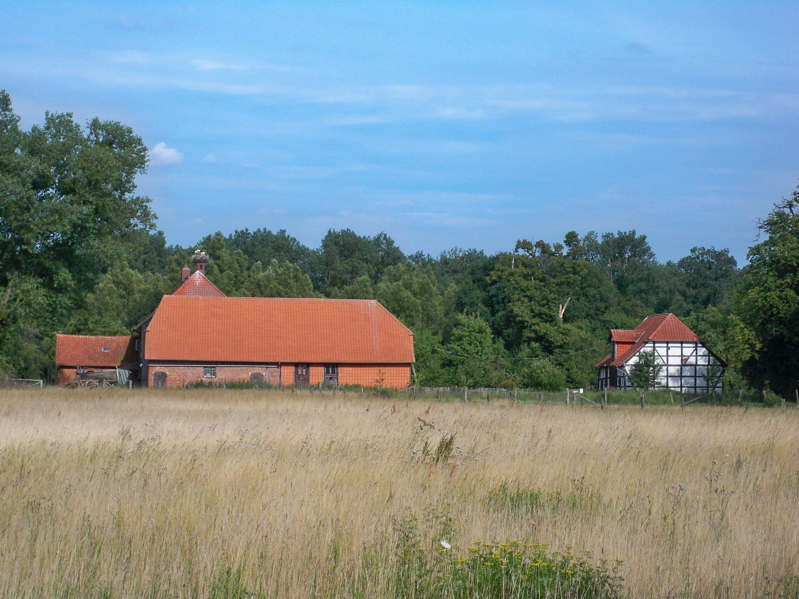 Giebel, Lower Saxony, Forest administration house with storks' nest